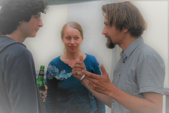 artist dialogue